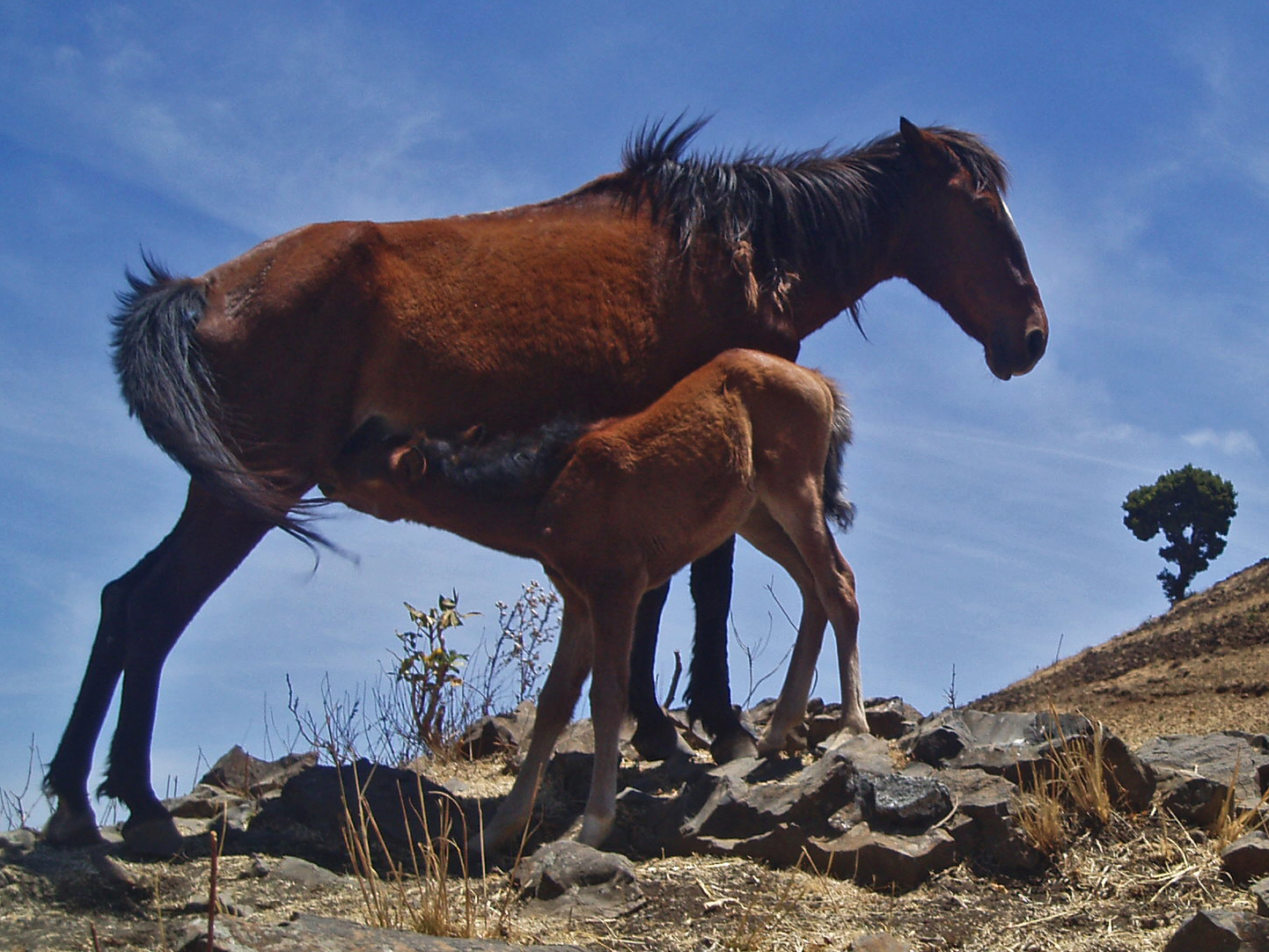 Mare and foal of the rare feral Kundudo horse population in Ethiopia